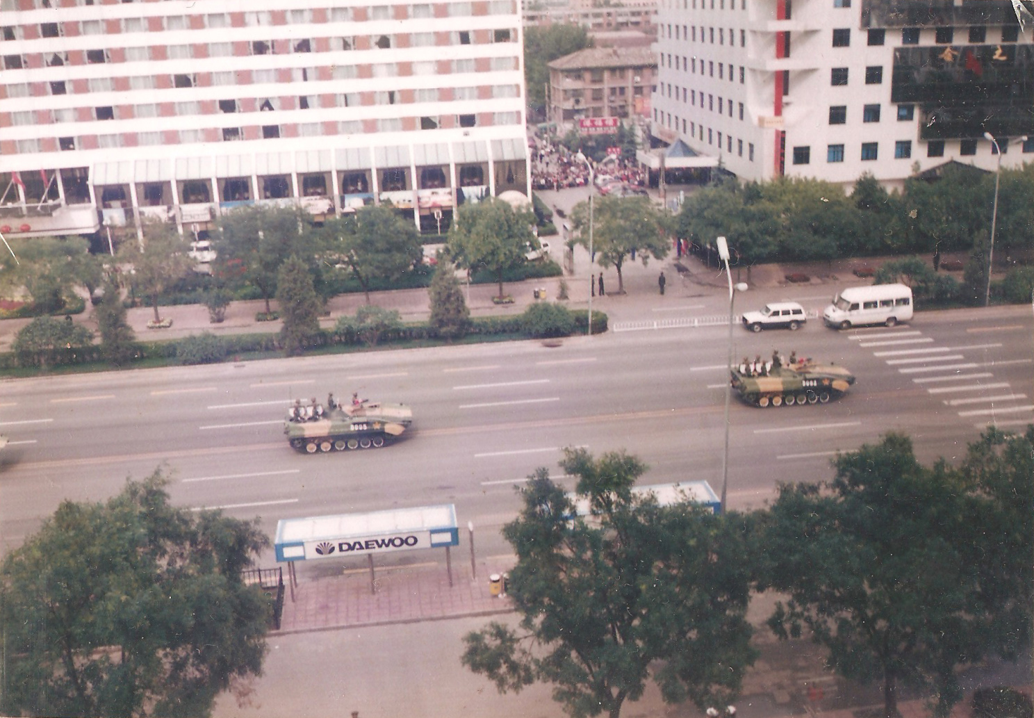 50th anniversary of the People's Republic of China, taken in my apartment, opposite of Jinglun hotel, when I was 5 years old.中文（中国大陆）: 首都各界庆祝中华人民共和国成立50周年大会后，5岁的我坐在家（京伦饭店对面）里的桌子上，用傻瓜相机，第一次拍摄历史时刻的照片。